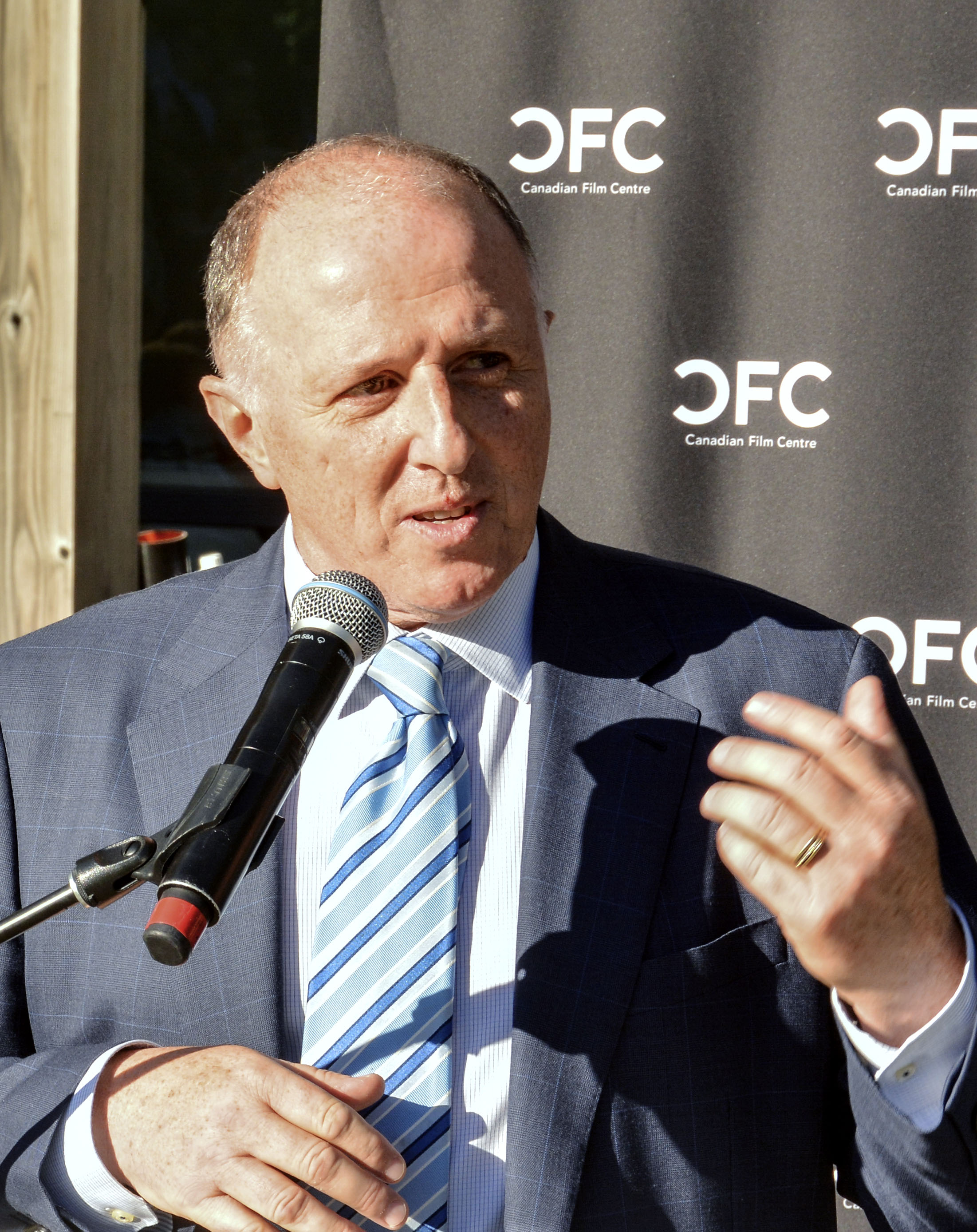 Tony Gagliano at the 2017 CFC Annual Garden Party